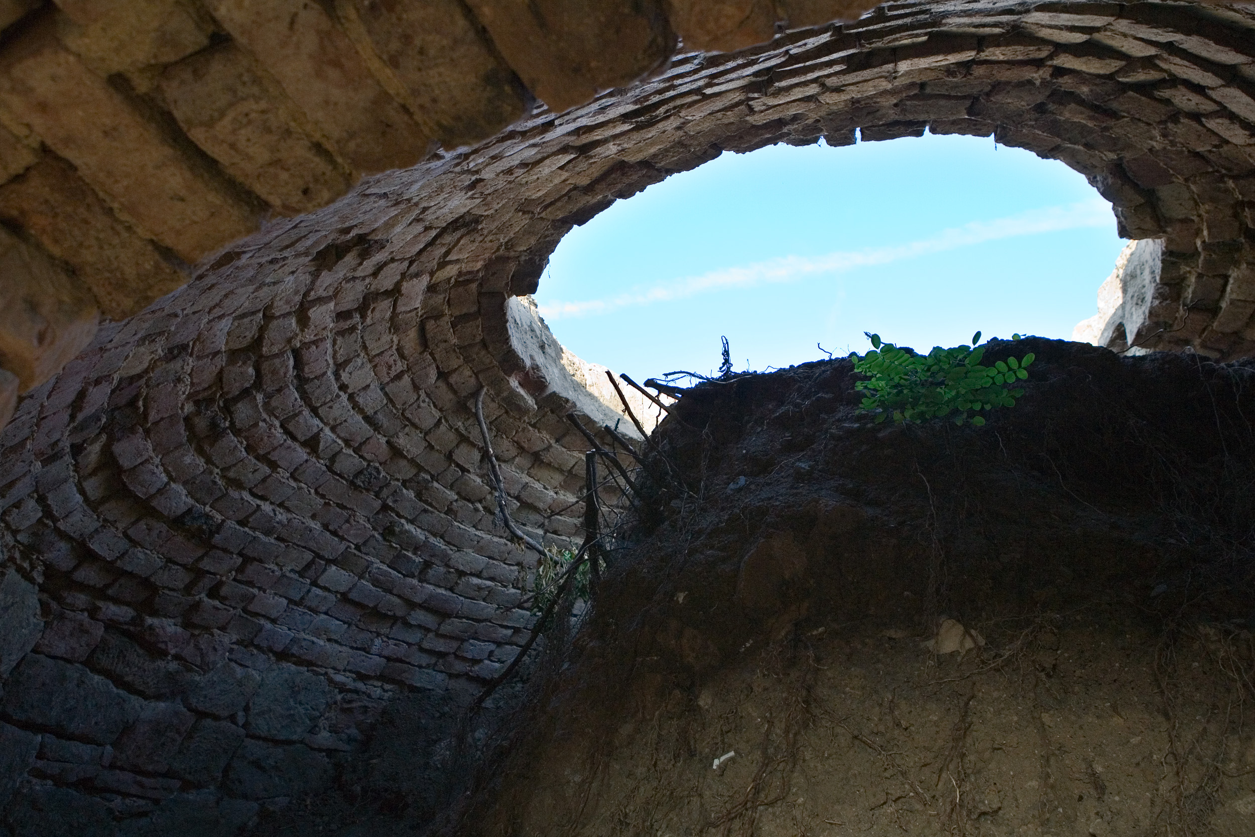 Frankfurt on the Main: Affenstein, Tower, superior party of the dome